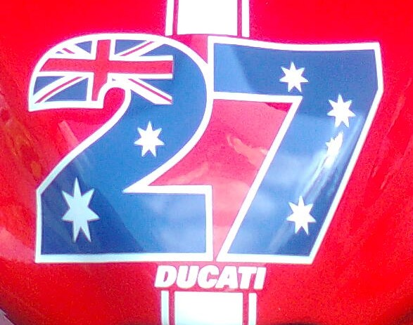 Casey Stoner's number on his bike in Brno